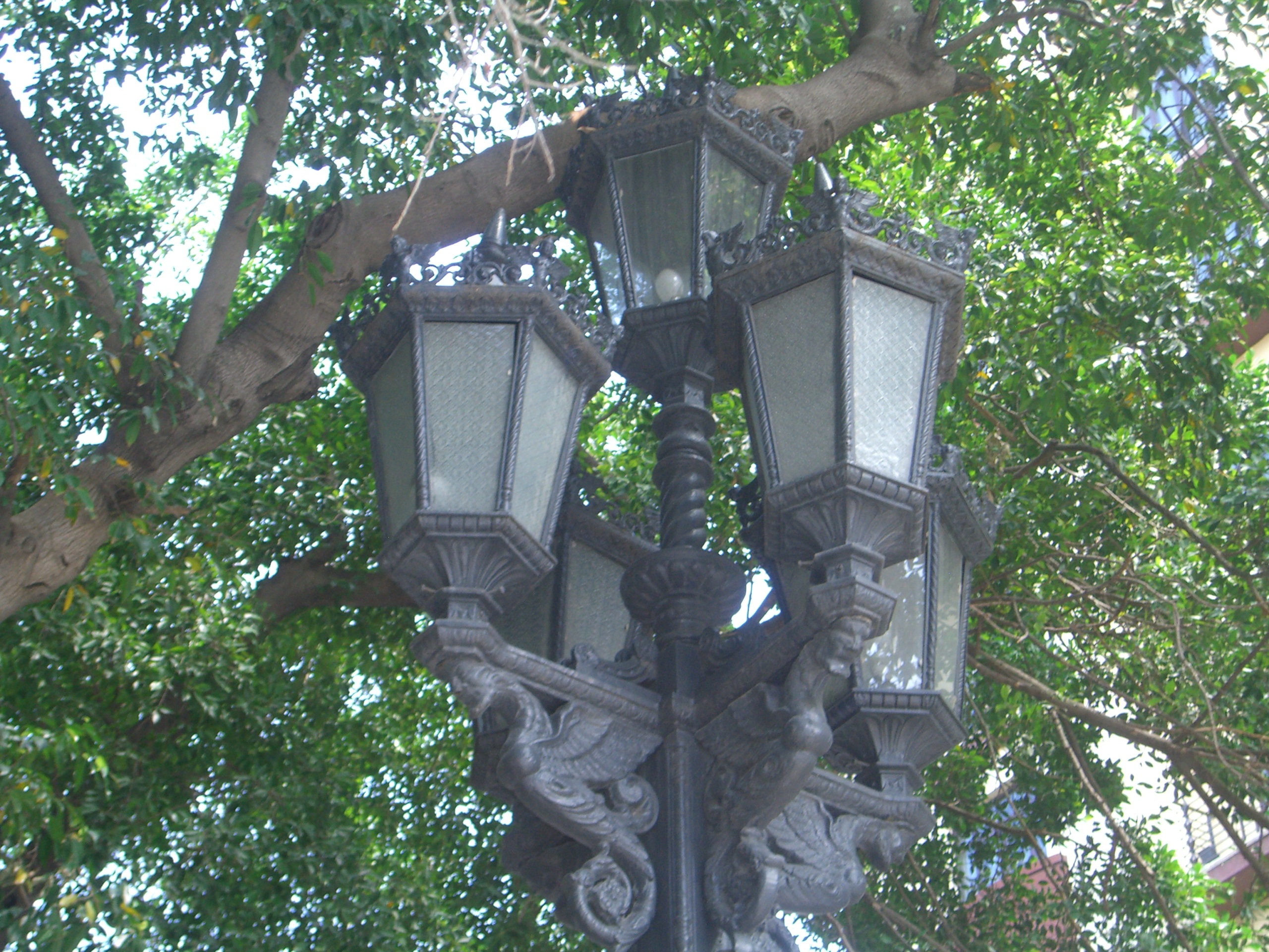 Paseo del Prado (Havana)